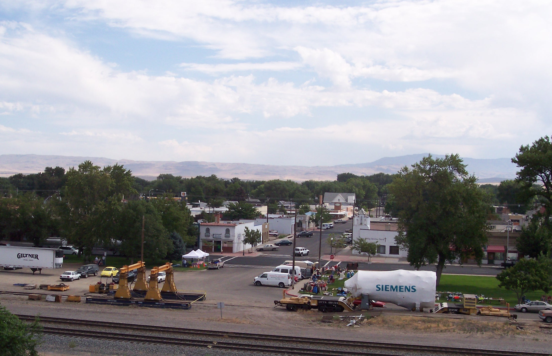 View of Mountain Home.